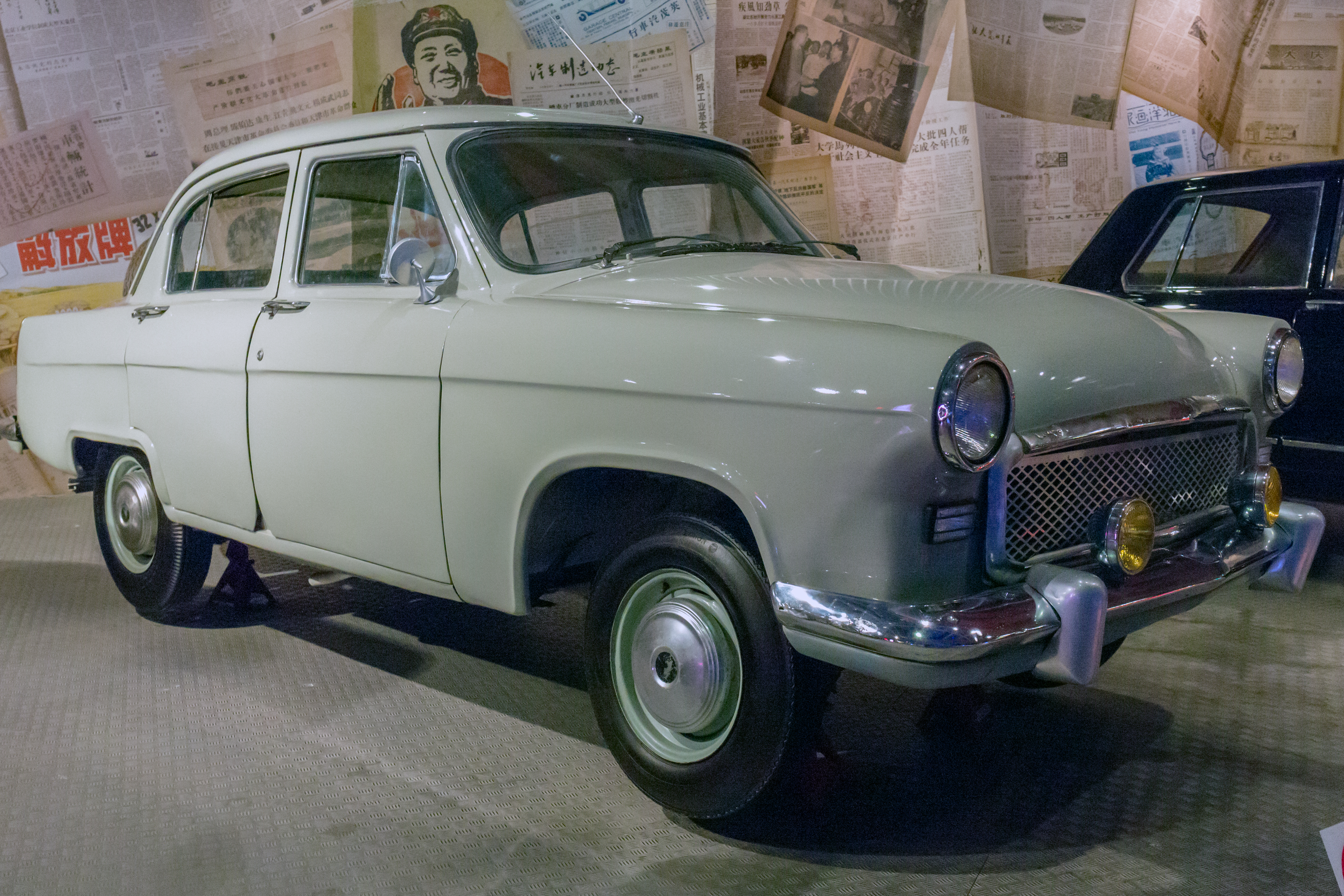 A replica of the 1960 BAW Dongfanghong (东方红牌小轿车)